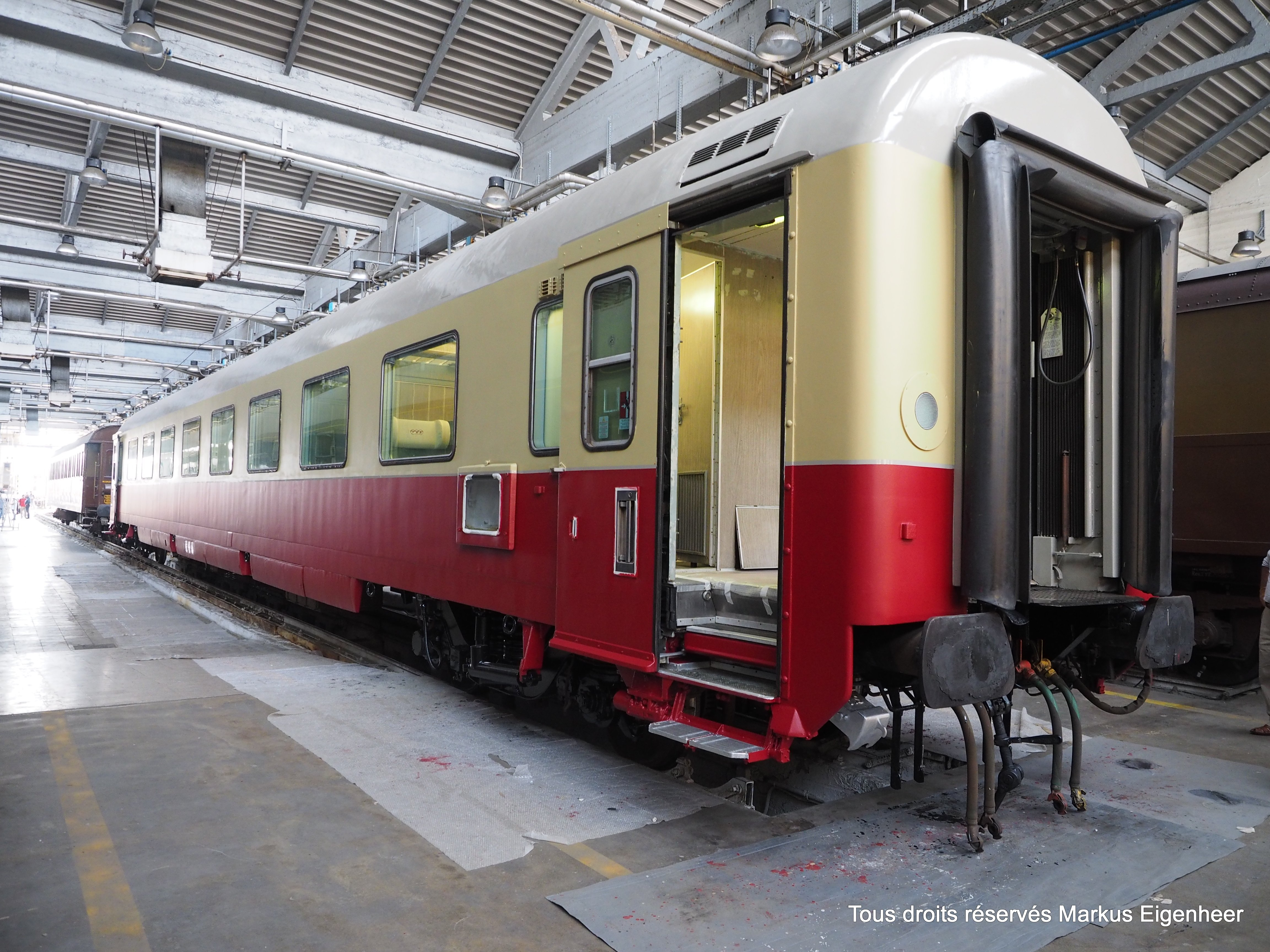 Milano Squadra Rialzo 26.06.15